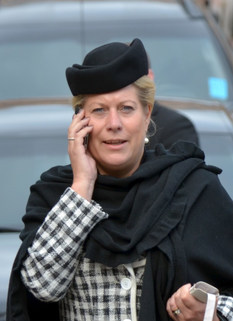 Catharina Elmsäter-Svärd, Swedens minister of communications.